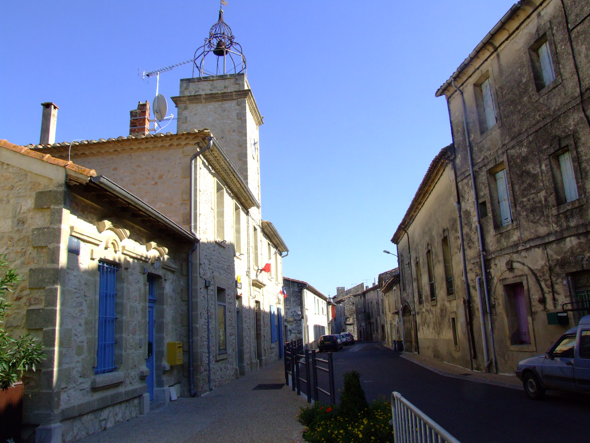 Salinelles is village on the west bank of the Vidourle in the department of Gard, France, some 3 km north west of Sommières..